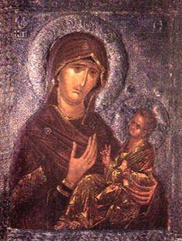 Peribleptos icon from the Theotokos Peribleptos (now. St. Clement) in Ohrid, Macedonia.